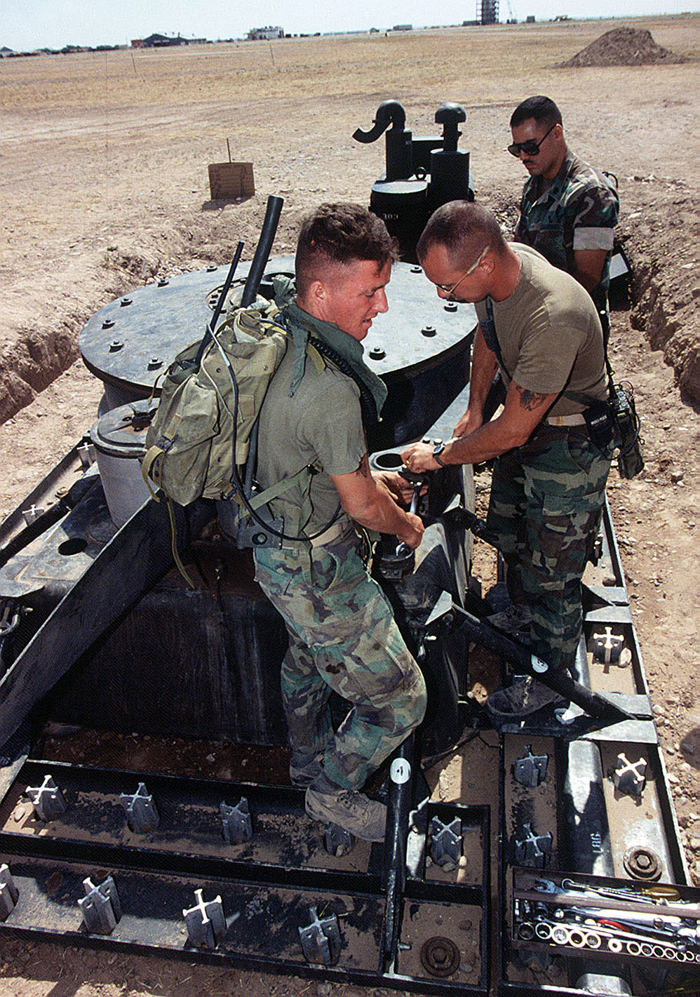 Marines from Marine Wing Support Squadron 273, Beaufort, South Carolina, place boots under the M21 Arresting Gear's cable to ensure successful trapping of incoming aircraft during Exercise ROVING SANDS '96. Location: ROSWELL, NEW MEXICO (NM) UNITED STATES OF AMERICA (USA)